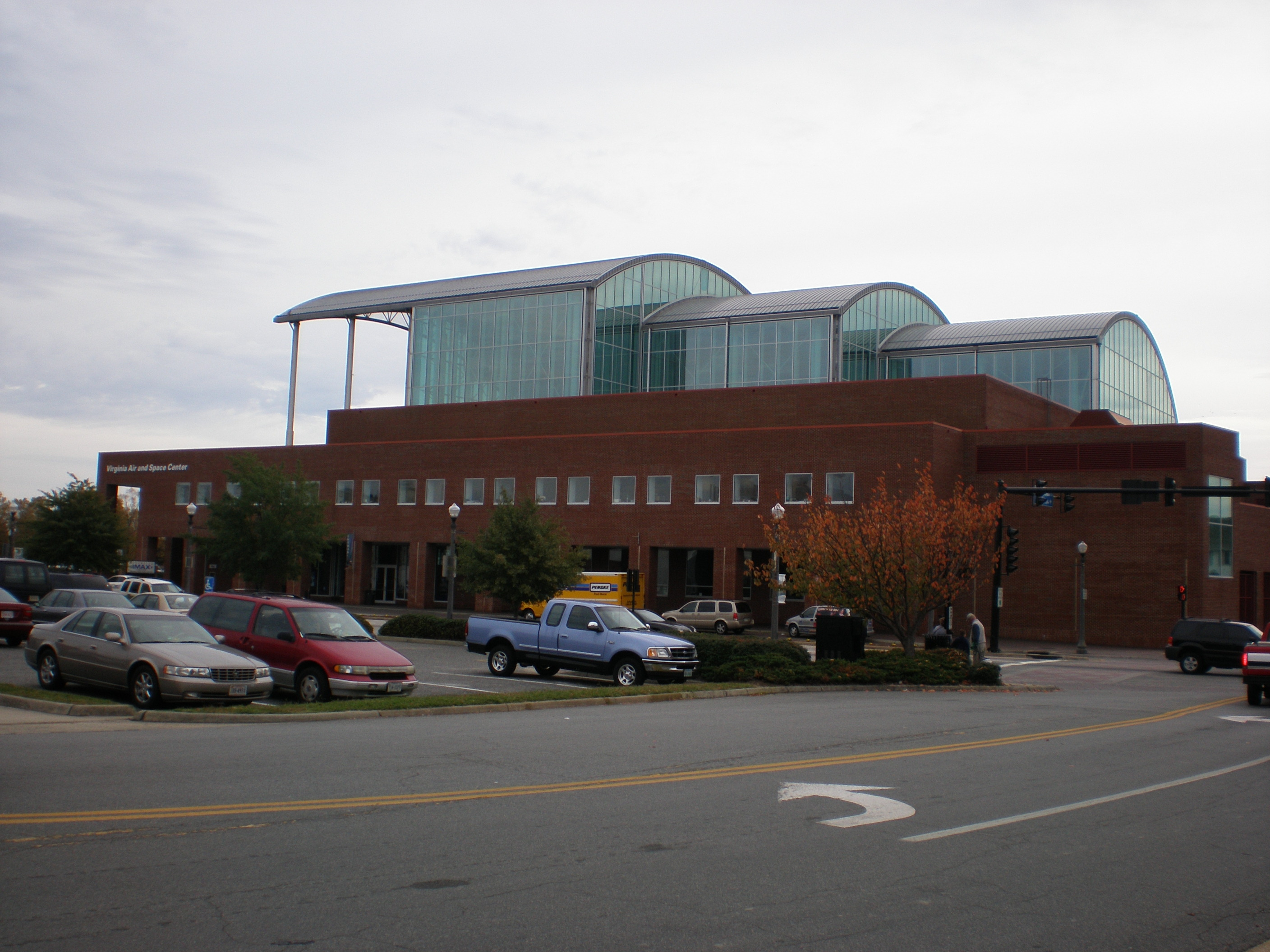 Virginia Air and Space Center, as seen from a public parking structure, in Hampton, Virginia.